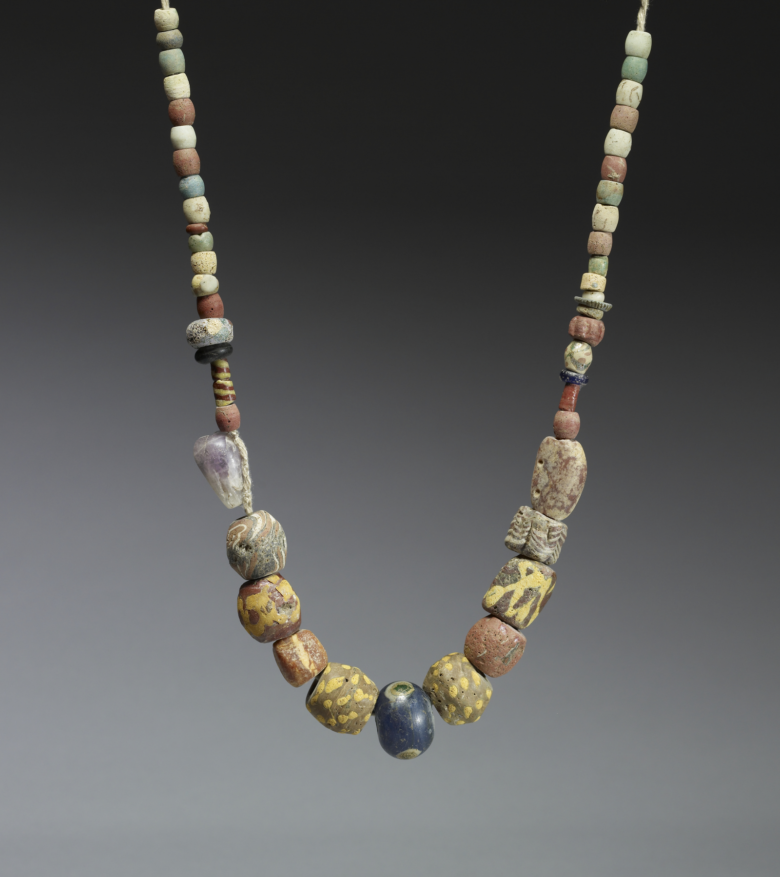 This simple but colorful necklace is composed of fifty beads, most of which are glass or ceramic, with a single amethyst bead. Similar necklaces have been found in the graves of Frankish women in the Rhineland. This necklace is one of 21 said to have been excavated at Niederbreisig (Germany).